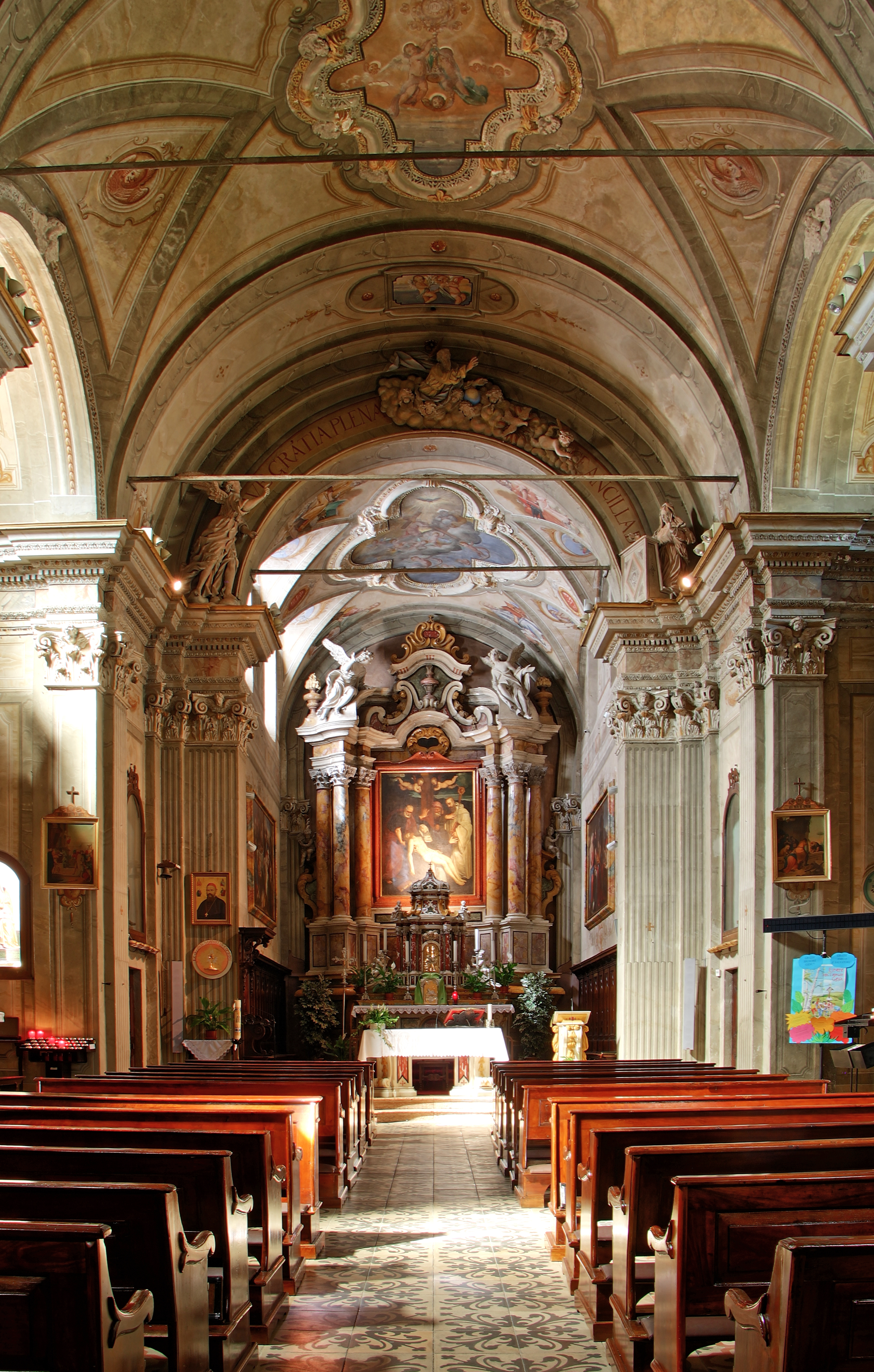 Parish church S. Benedetto, Limone sul Garda. Built in 1691 by Andrea Pernis from Como. Interior. High altar by Cristoforo Benedetti with the "Deposition from the Cross" by Battista d'Angolo, also referred to as "Il Moro", 1547.